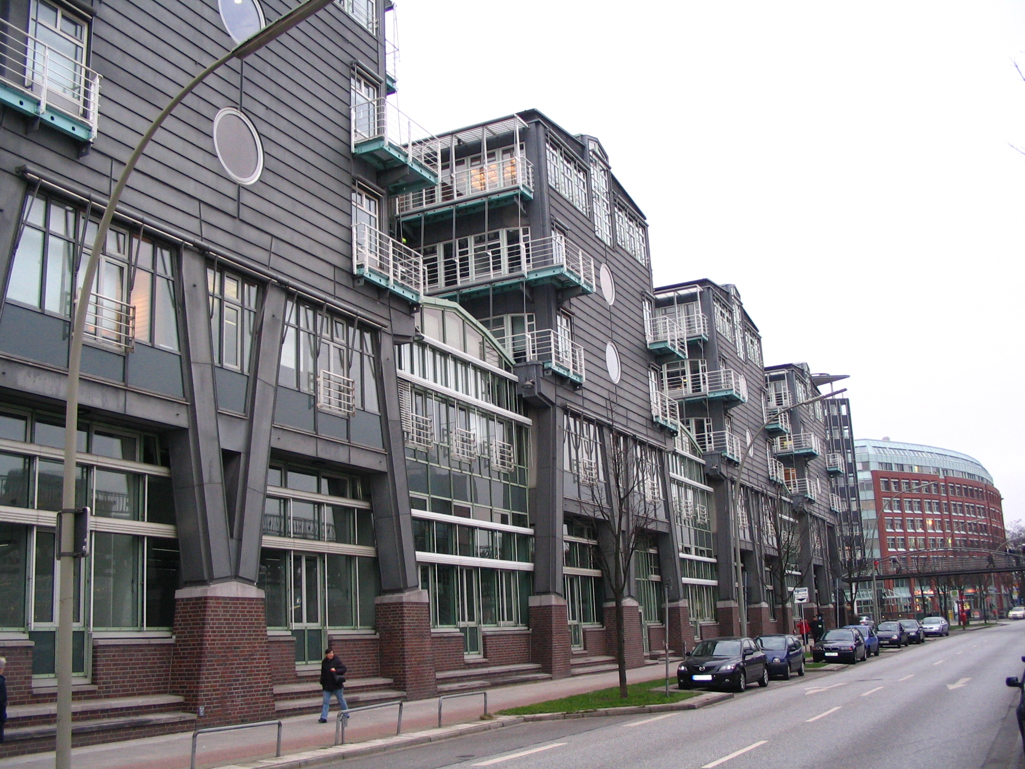 Baumwall - Hamburg